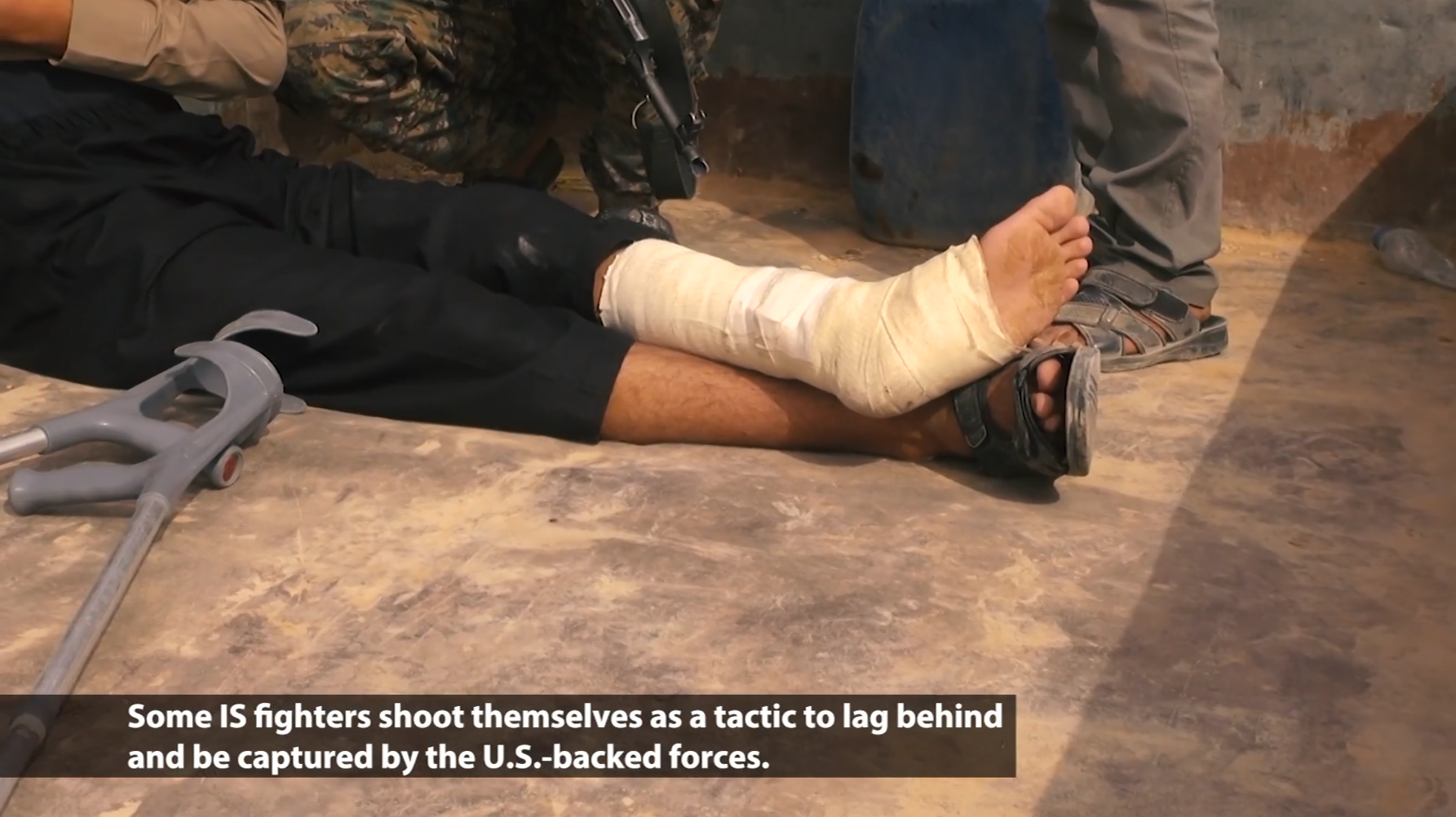 An ISIL fighter with a self-inflicted wound. As the Islamic State collapses in Syria, the morale of many of its remaining troops has rapidly declined, so that some inflict wounds on themselves to lag behind and be captured by the YPG.